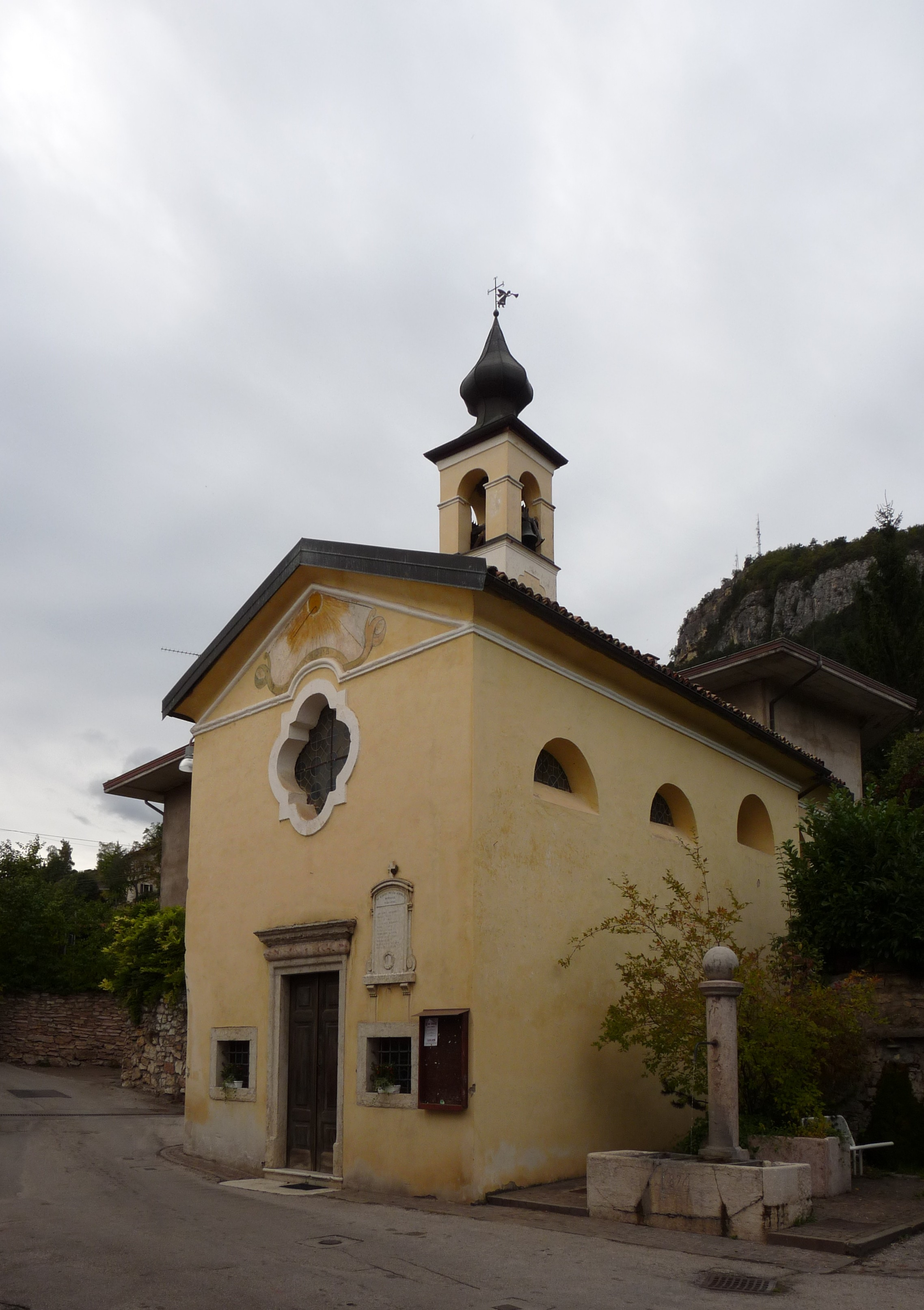 Trento (Italy): church of Santi Fabiano e Sebastiano (XVI century, rebuilt in 1787) in the Tavernaro village